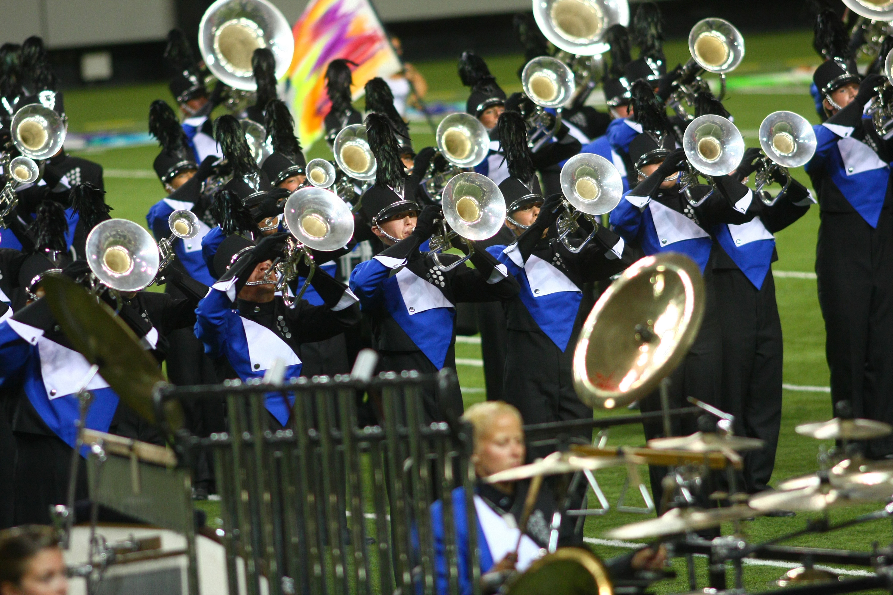 The Blue Knights, 7/26/08. Category:Drum and bugle corps Summary The Blue Knights, 7/26/08.